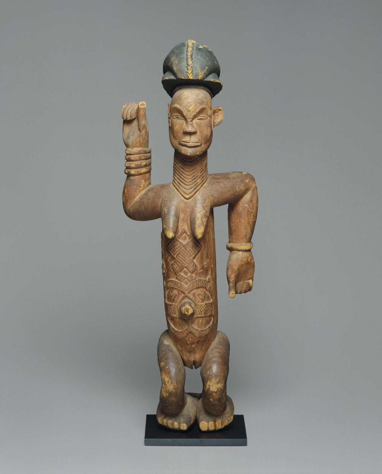 Female figure with long torso standing on short flexed legs. The arms of the figure are bent at the elbow with the right hand upraised and the left hand held down at the side, with thumb pointing downwards. Crested headdress and crosshatched diamond scarification on forehead. Elongated neck covered with ringed necklace; wrists have bracelets. Elaborate scarifciation patterns on torso, including a cross-form. Enlarged navel and exposed vulva. Black pigment on headdress; red tukula pigment on body. CONDITON: Second finger and a portion of the thumb broken off left hand. Small finger on right hand worn. Part of middle toe of left foot broken off. Figure frayed. Left side of head and temple battered. Insect damage on left side of upper elbow.